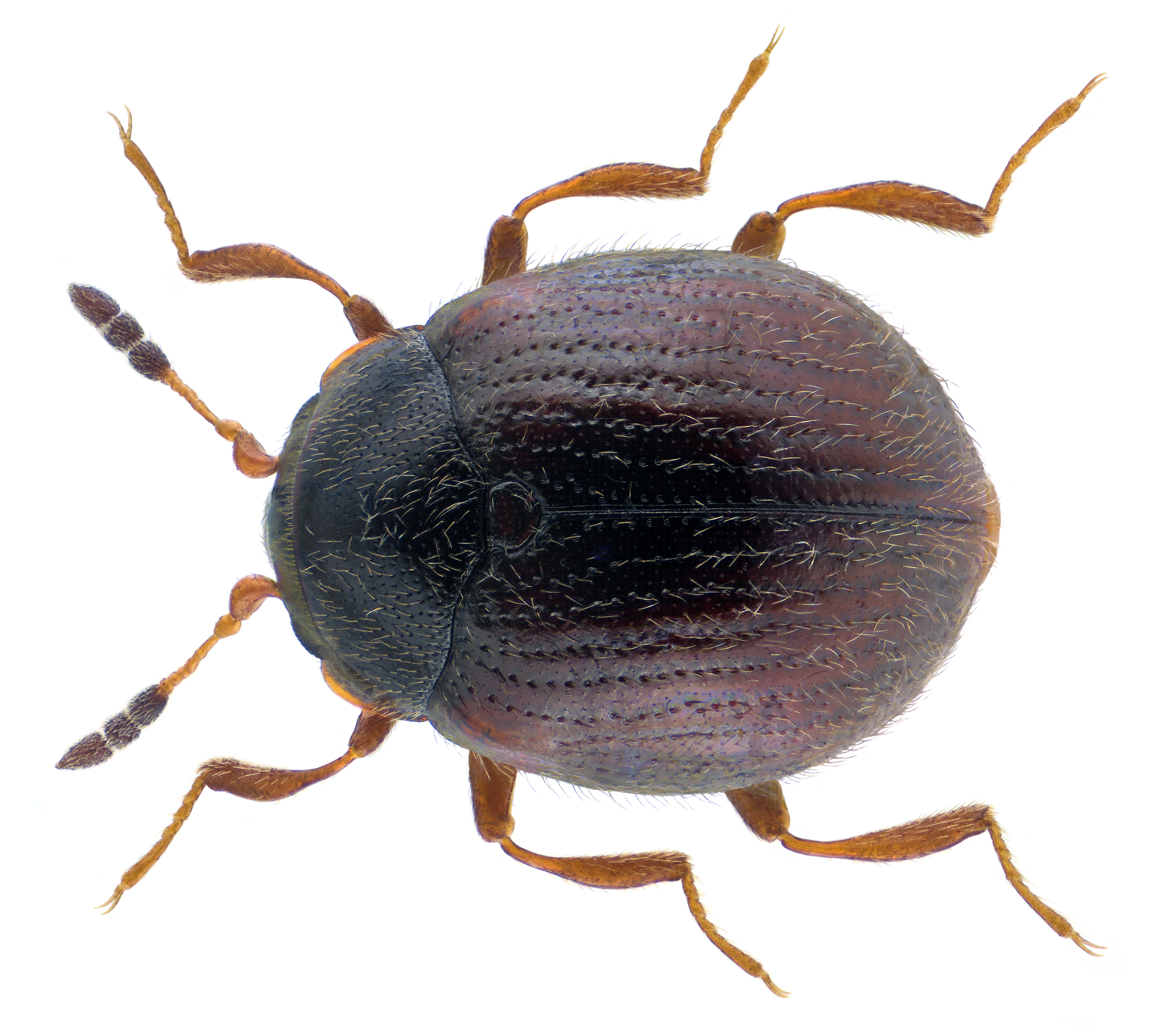 Aspidiphorus orbiculatus (Gyllenhal, 1808) Family: Sphindidae Size: 1.4 mm (1.2 to 1.5 mm) Distribution: Europe Ecology: The beetles live on slime molds and dust fungi Location: England, Suffolk, Ipswich, Shrubland leg.det. D.R.Nash, 1.VI.1983 Coll. Oxford University Museum of Natural History Photo: U.Schmidt, 2018